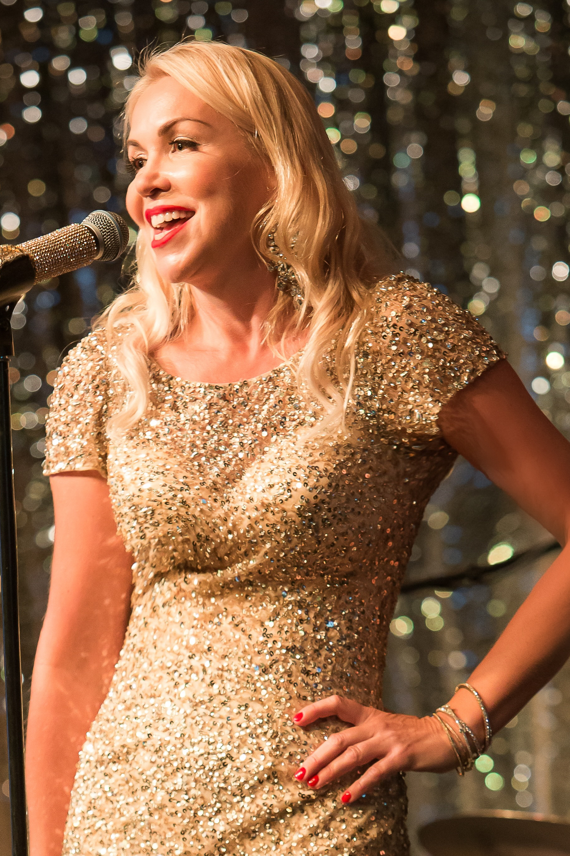 Anna Danes with microphone with glittery gold background